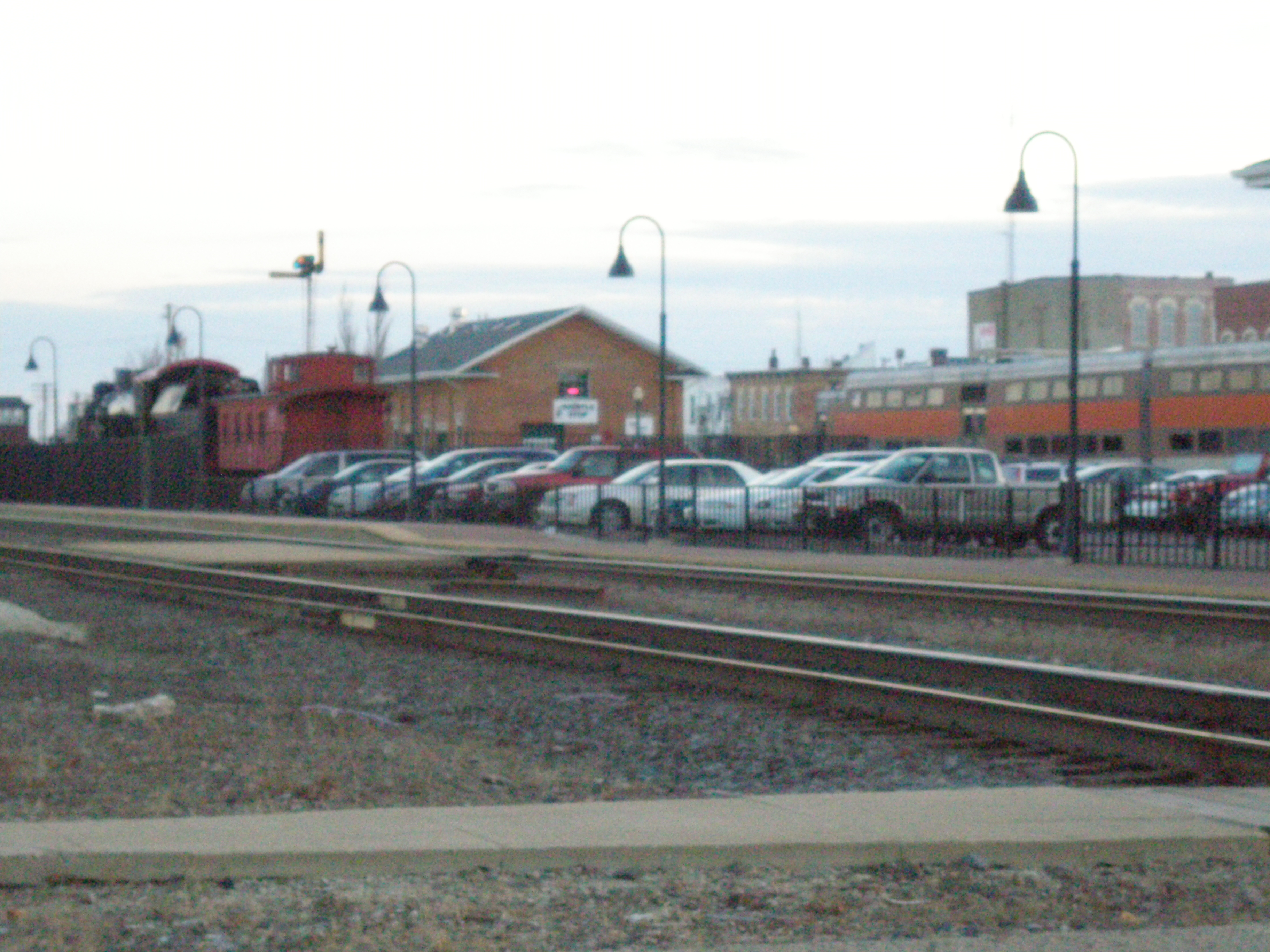 Another view of the Mendota, IL Amtrak station